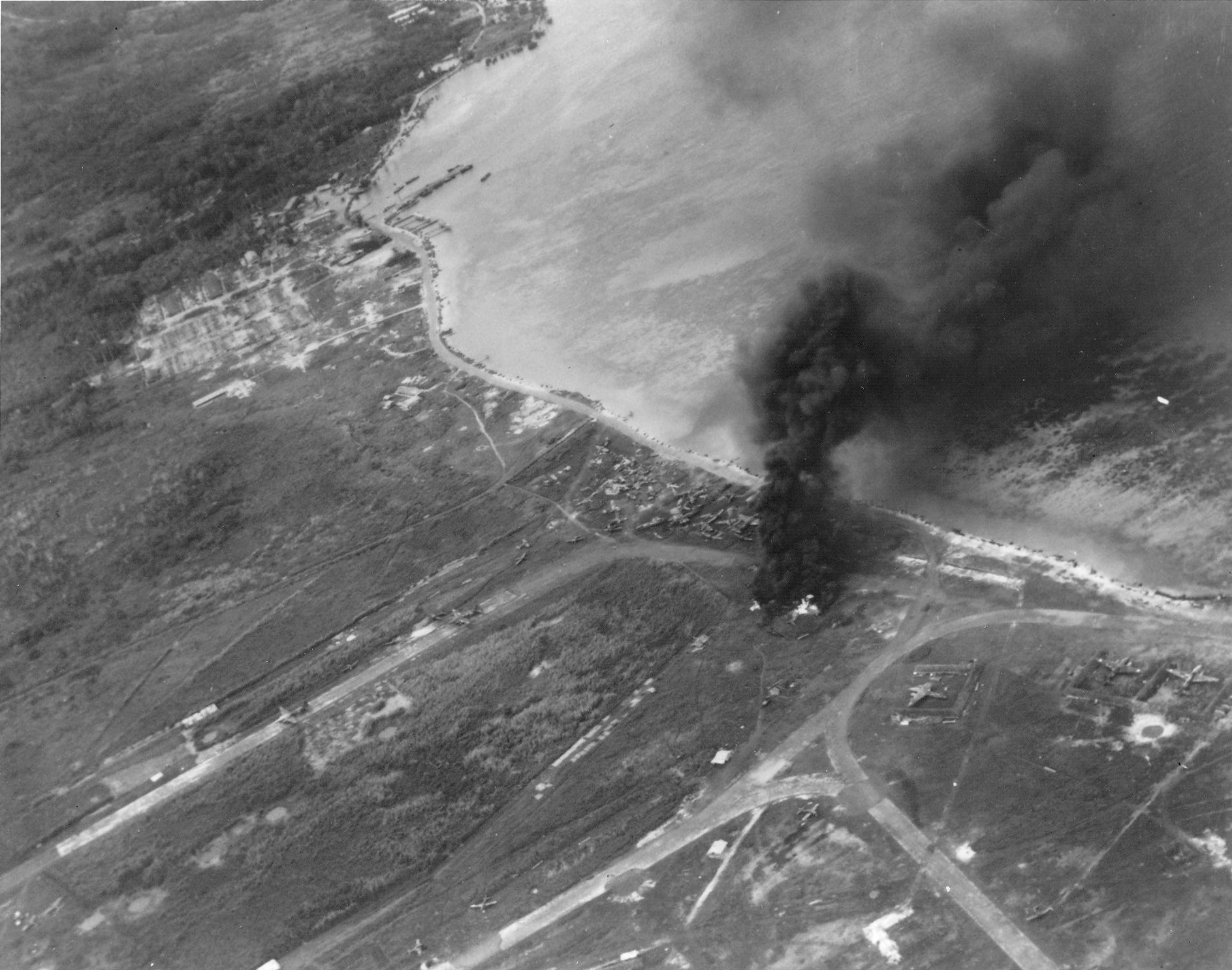 U.S. Navy strike photograph from the attack on the Japanese airstrip at Truk Atoll, on 29 April 1944.The attacks in February 1944 had for the most part ended Truk as a major threat to Allied operations in the central Pacific. The Japanese later relocated about 100 of their remaining aircraft from Rabaul to Truk. These aircraft were attacked by U.S. carrier forces in another attack on 29 April 1944 which destroyed most of them. The U.S. aircraft dropped 92 bombs over a 29 minute period to destroy the Japanese planes. The April 1944 strikes found no shipping in Truk lagoon and were the last major attacks on Truk during the war. The photo was taken from a Grumman TBF Avenger of Torpedo Squadron 32 (VT-32), Carrier Air Group 32 (CVG-32), from the light aircraft carrier USS Langley (CVL-27).